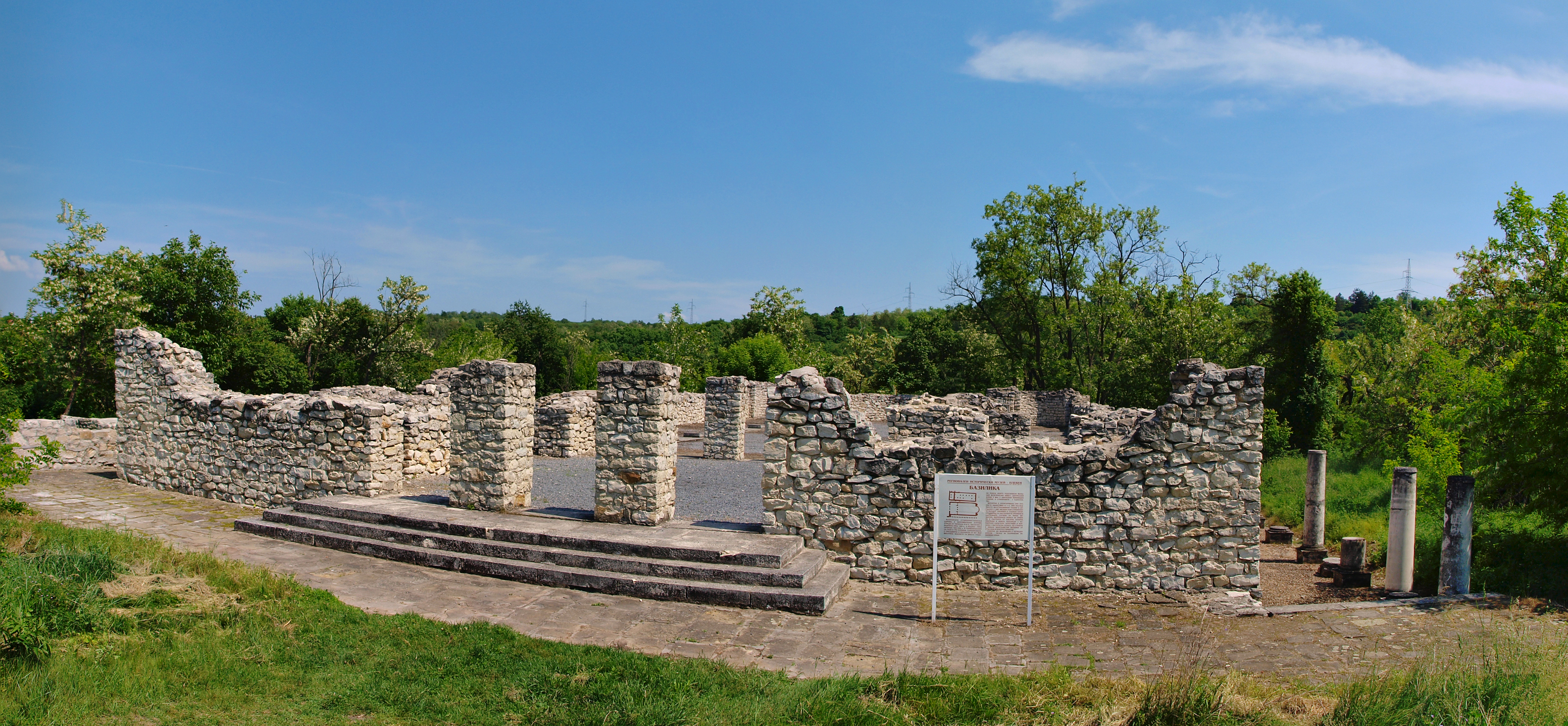 Ruins of the Ancient Roman fortress Storgosia near Pleven, Bulgaria